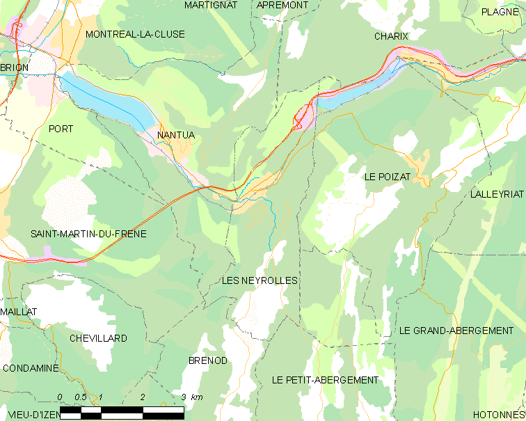 Map of French commune: Les Neyrolles Map commune FR insee code 01274.png